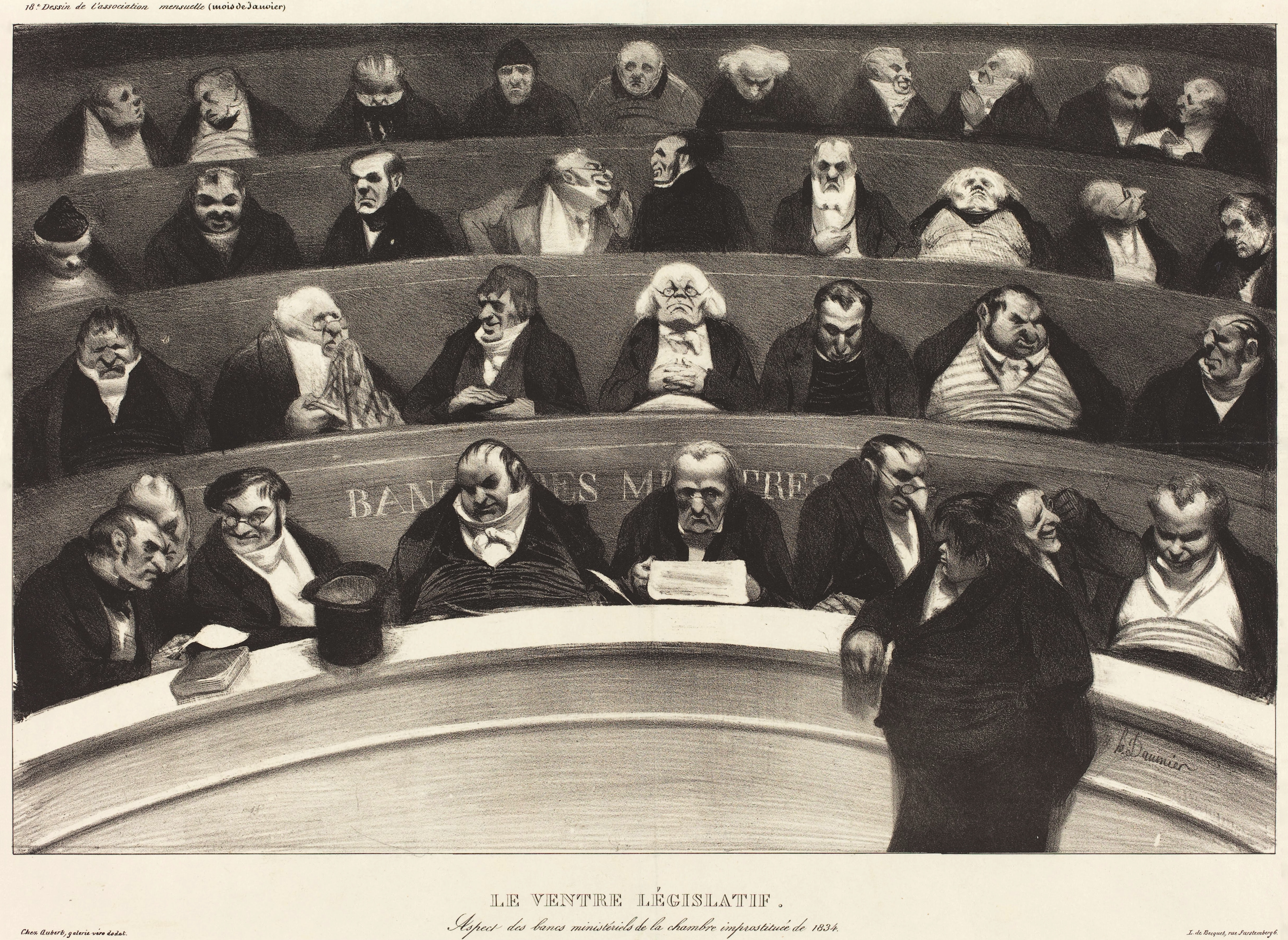 Print shows the members of the French legislature in session.